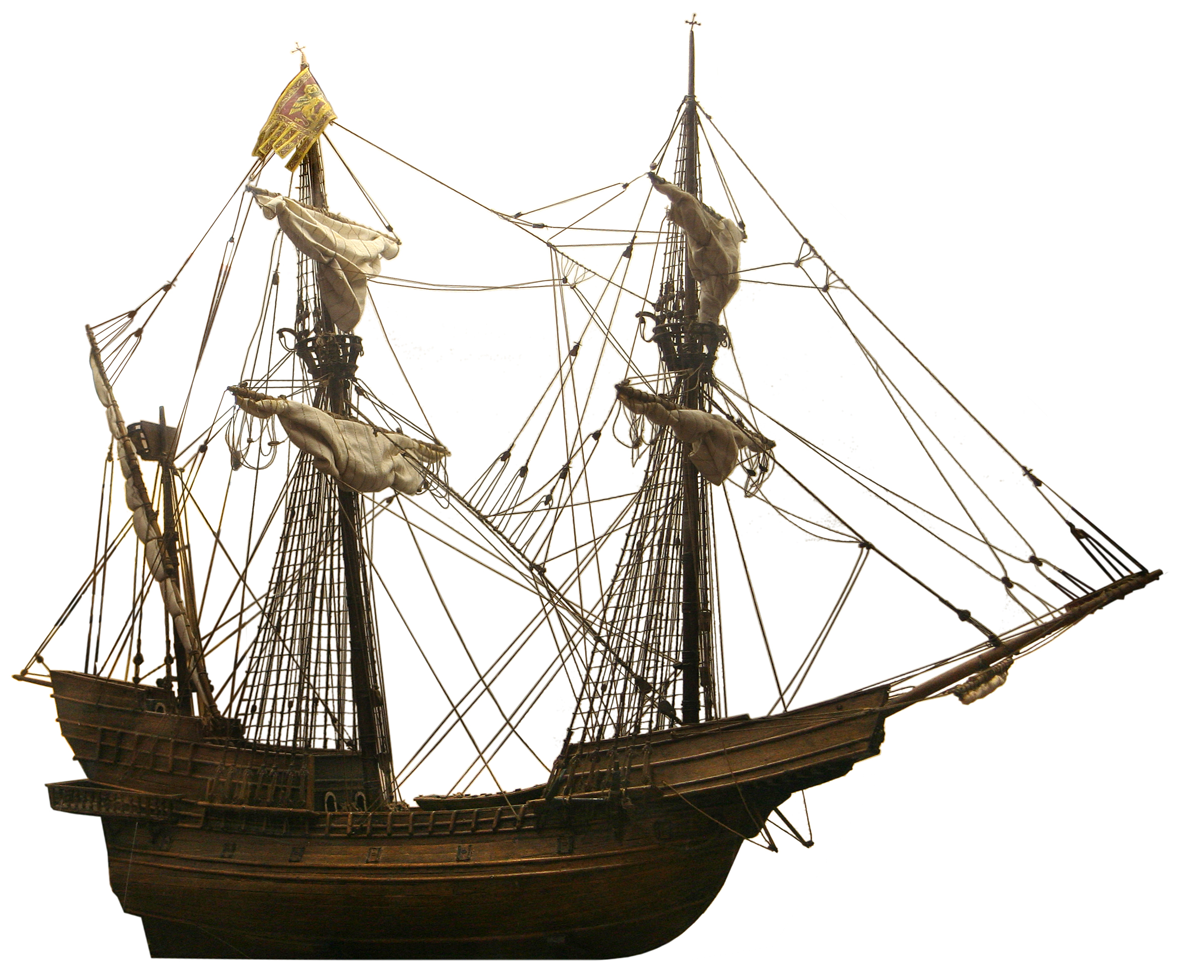 Galleon, Venice, 16th century. Wooden model from Museo Storico Navale, Venice